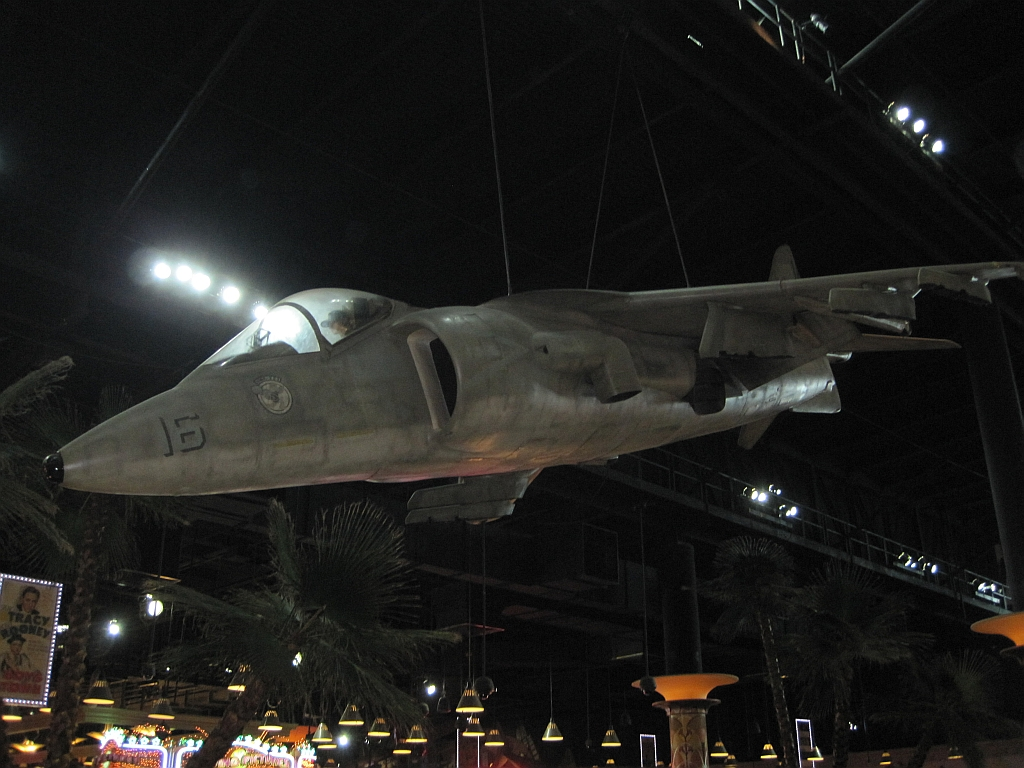 Hollywood Memorabilia Exhibit at the Hollywood Casino in Tunica, Mississippi. Fighter jet from the movie "True Lies"